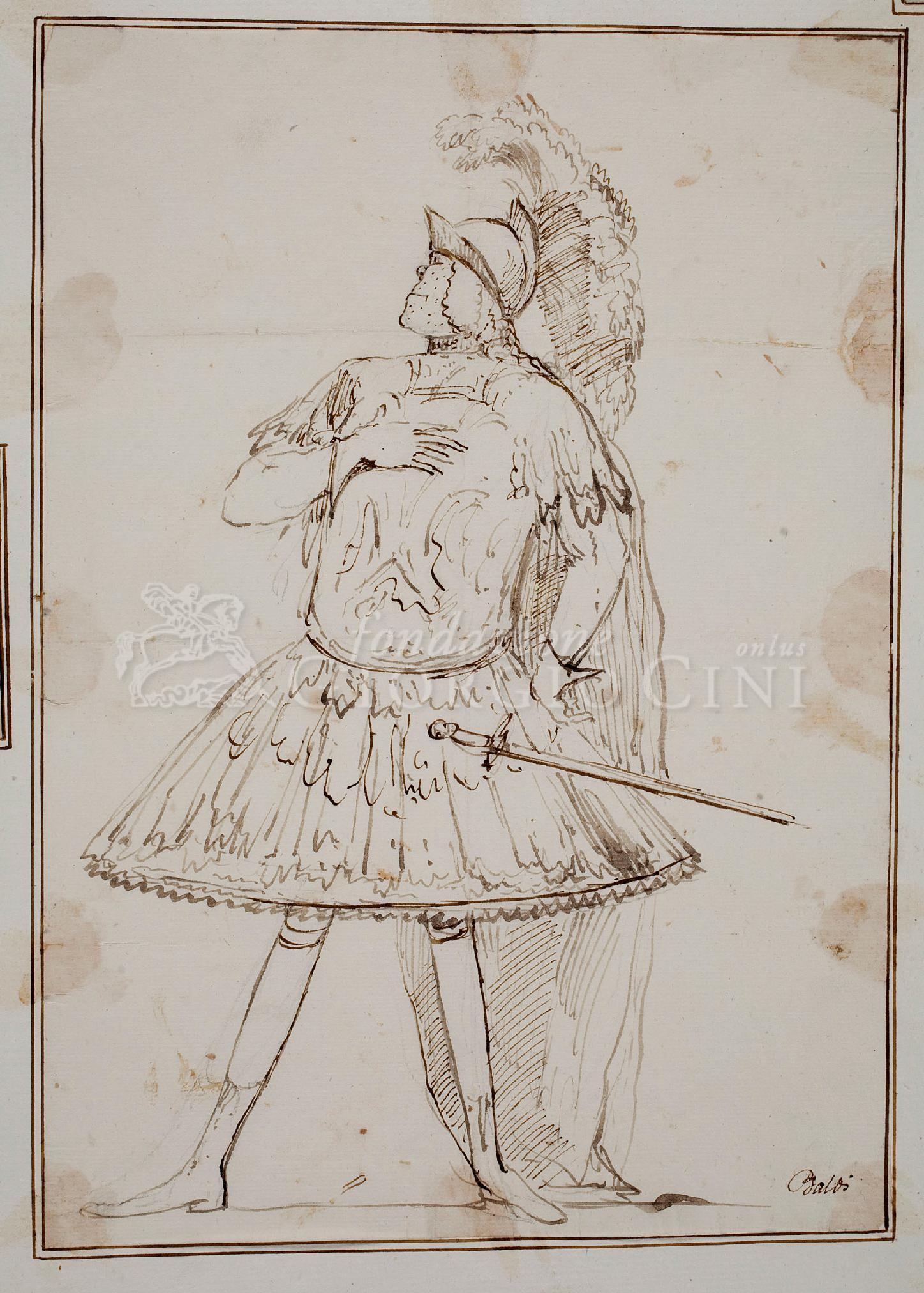 Caricature of Antonio Baldi, drawing by Antonio Maria Zanetti